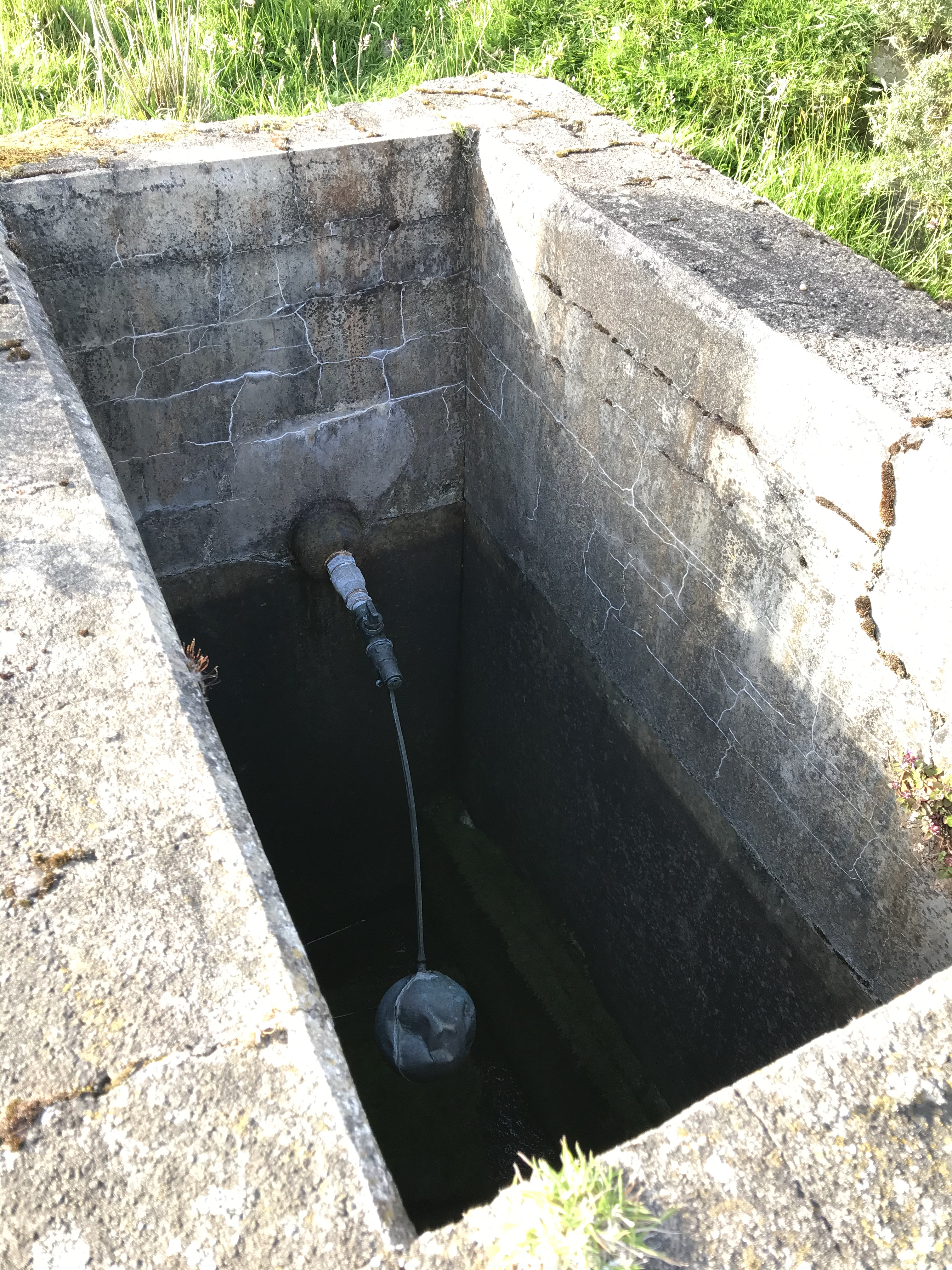 Cistern on Kirna Burn fed by a storage tank a few hundred feet upstream, supplying water to The Kirna and Kirna Lodge